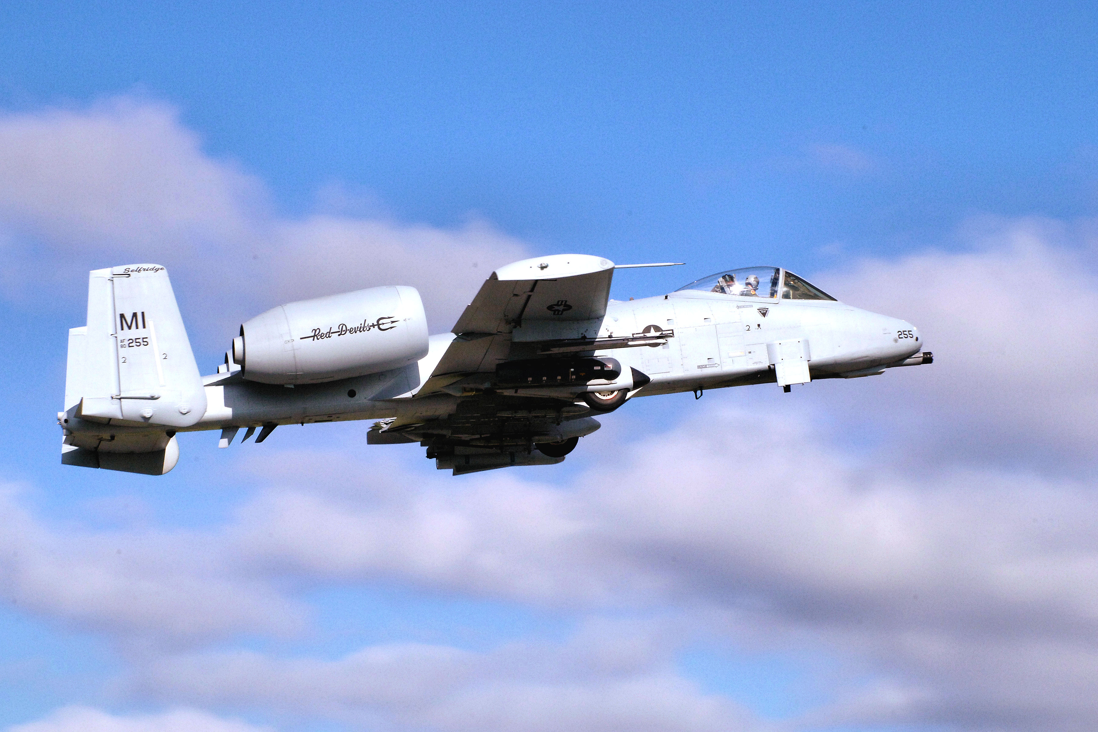 107th Fighter Squadron - A-10 80-255 Selfridge ANGB, Michigan.